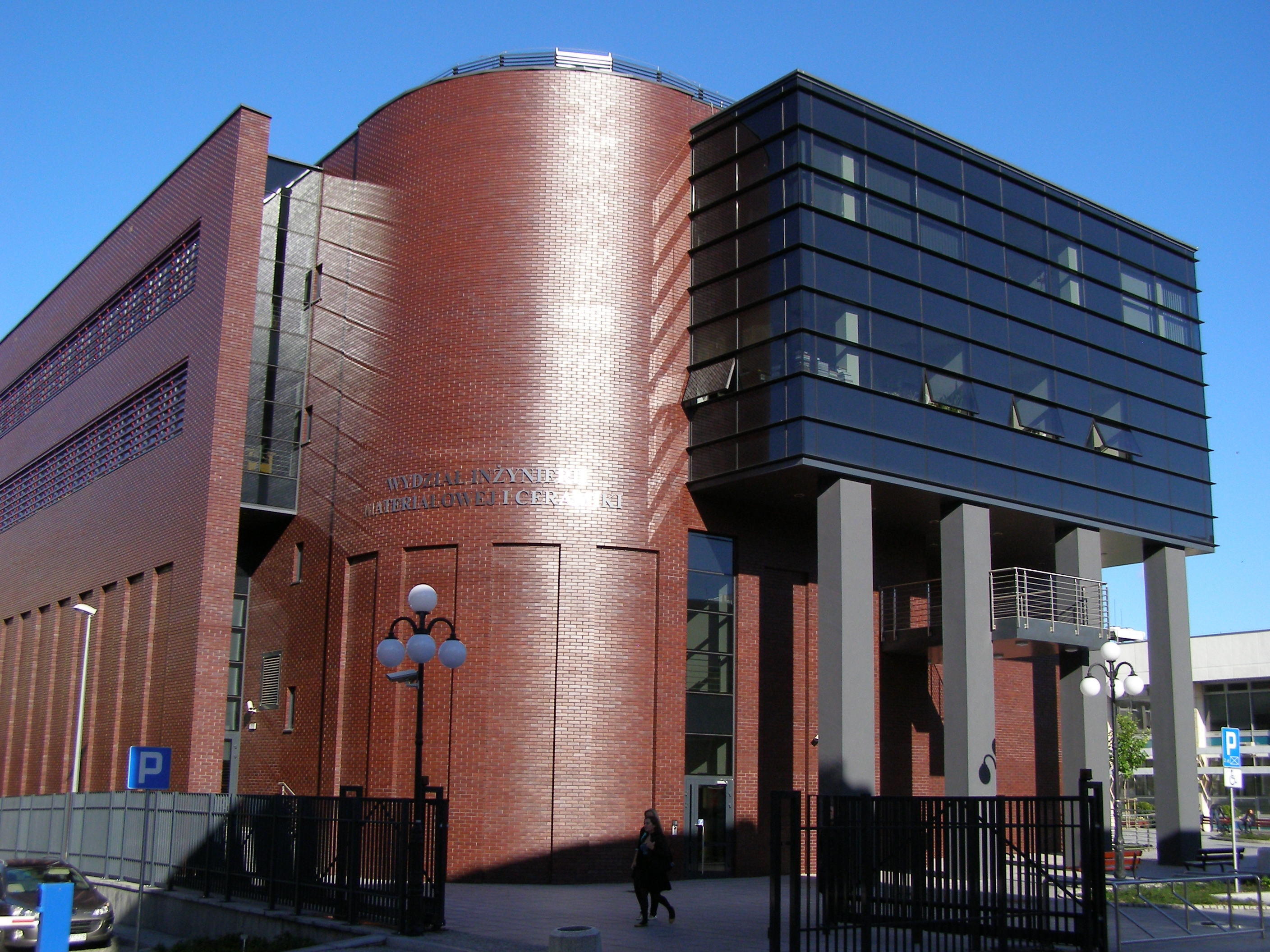 Kraków - AGH University of Science and Technology - B-8 building of the Faculty of Materials Science and Ceramics